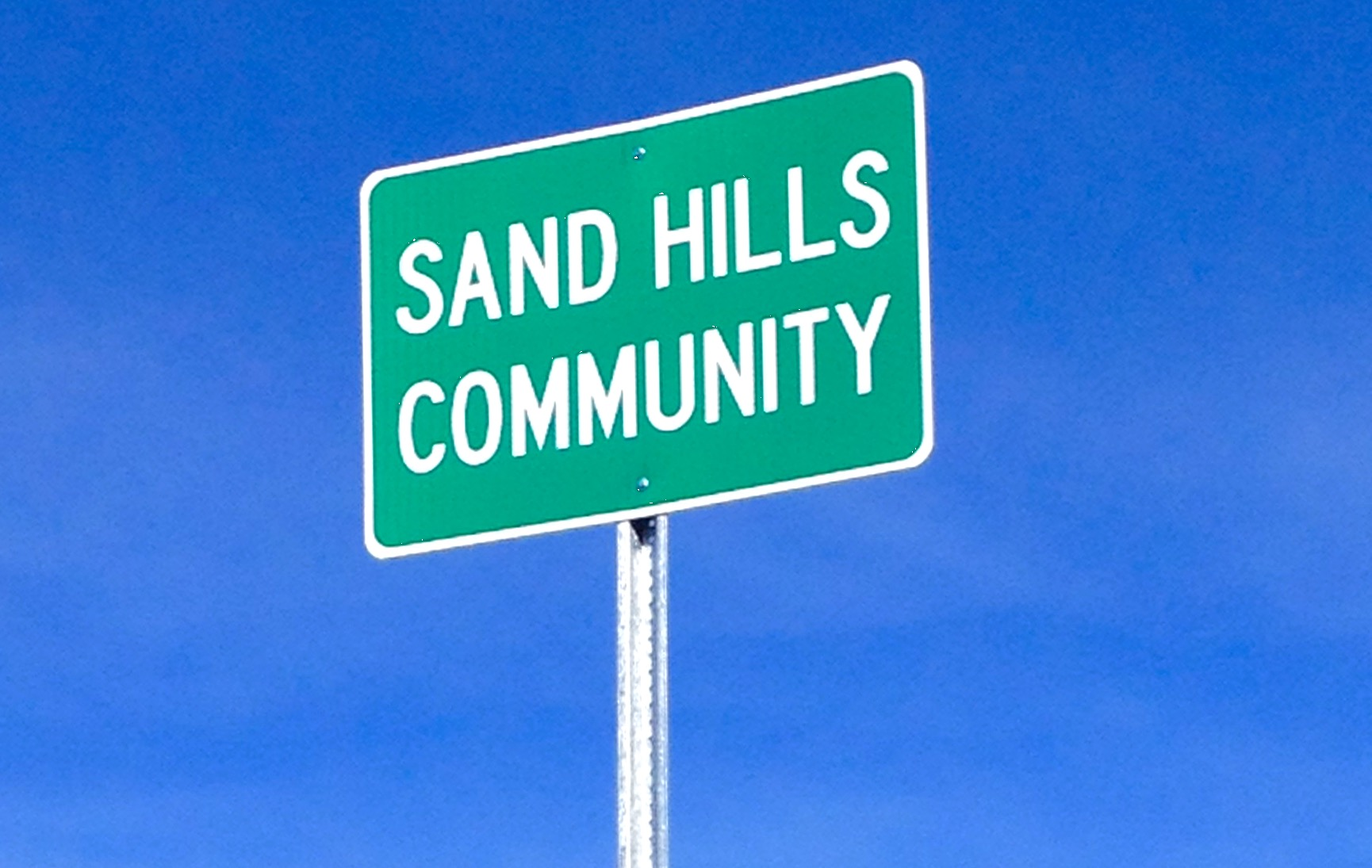 This is the sign of the Sand Hills Community